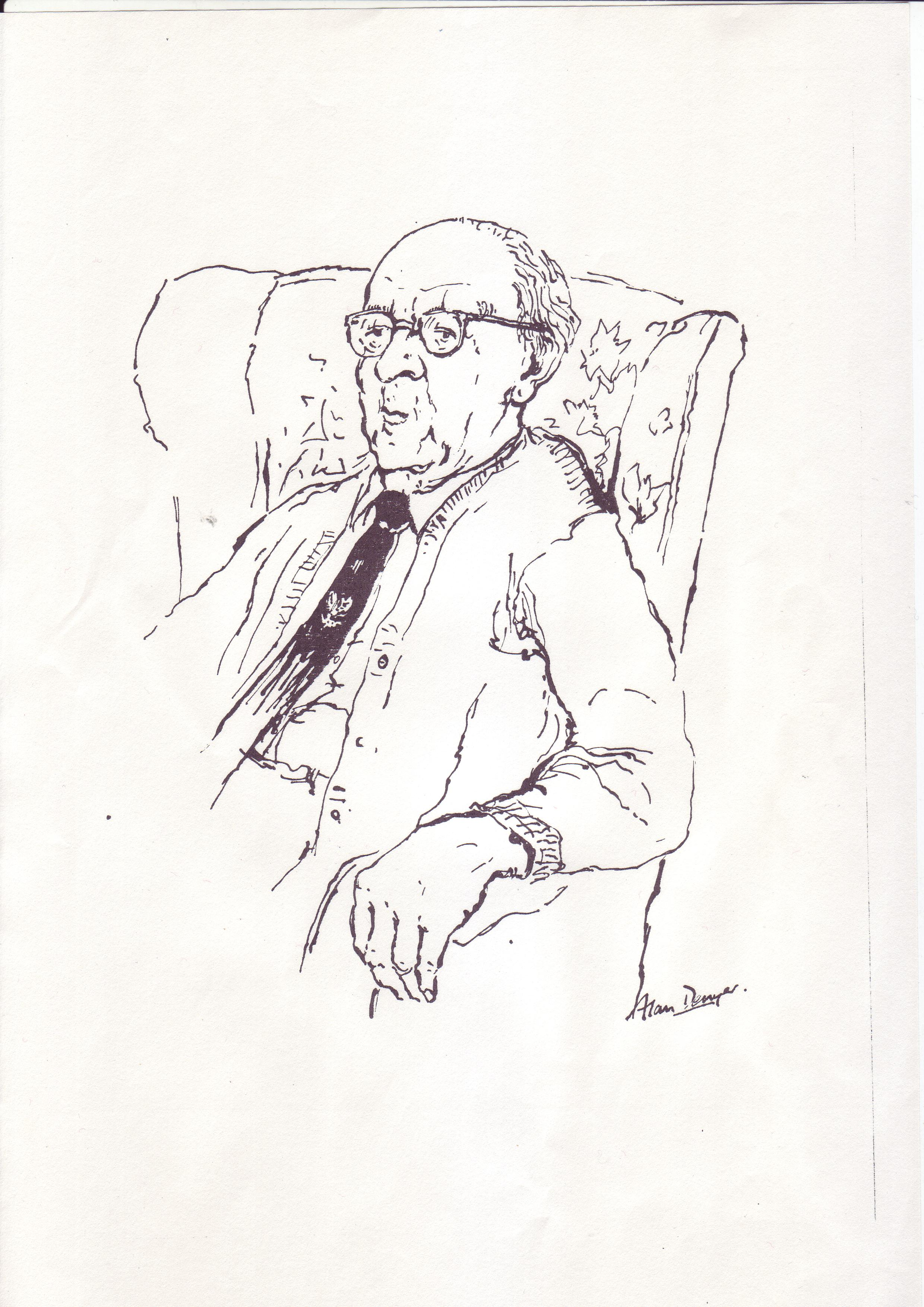 A monochrome drawing of Roy Chaplin (1899-1988) around 1985